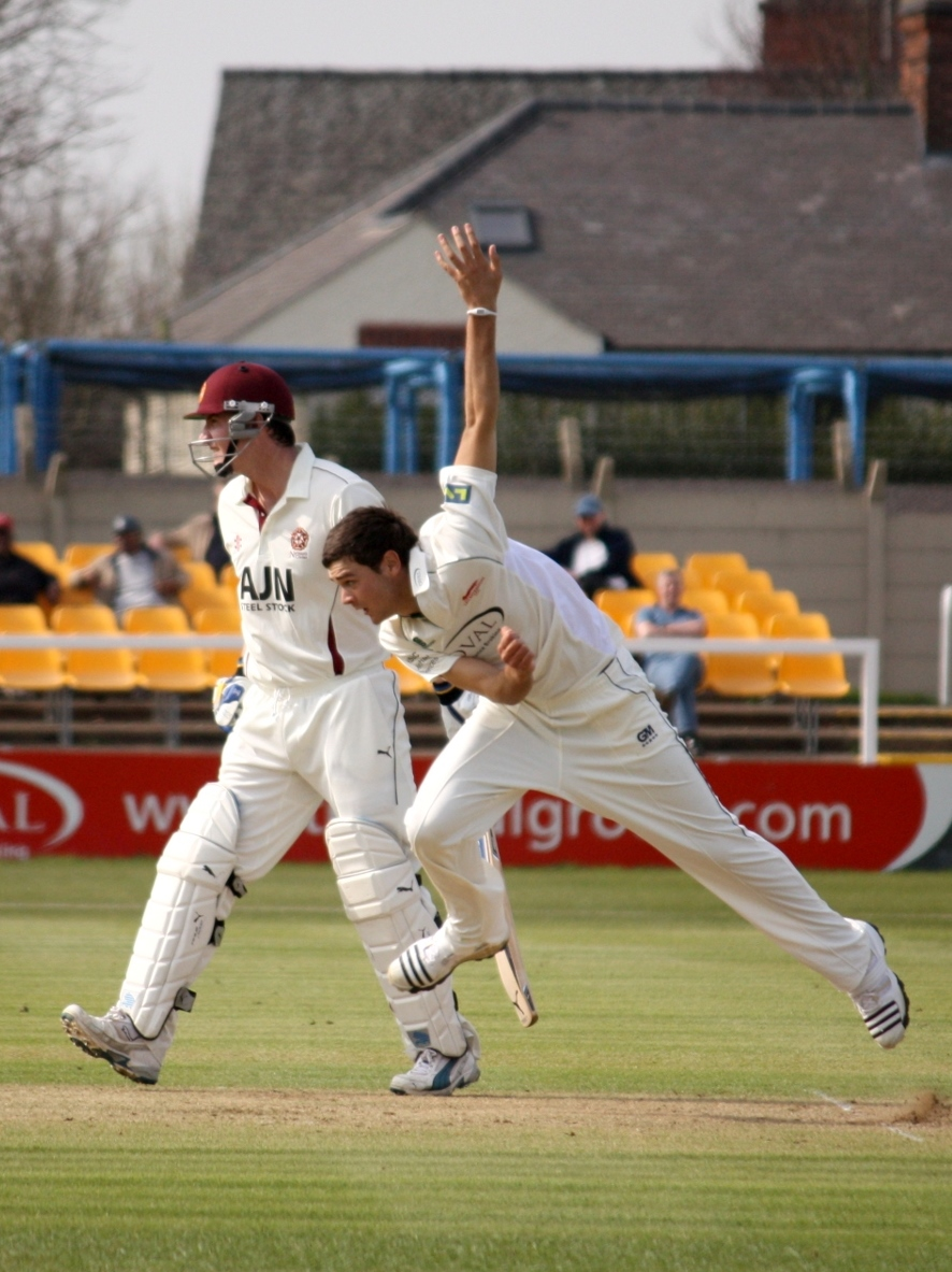 Nathan Buck bowling for Leicestershire in the LVCC match against Northamptonshire at Grace Road on April 10, 2010.